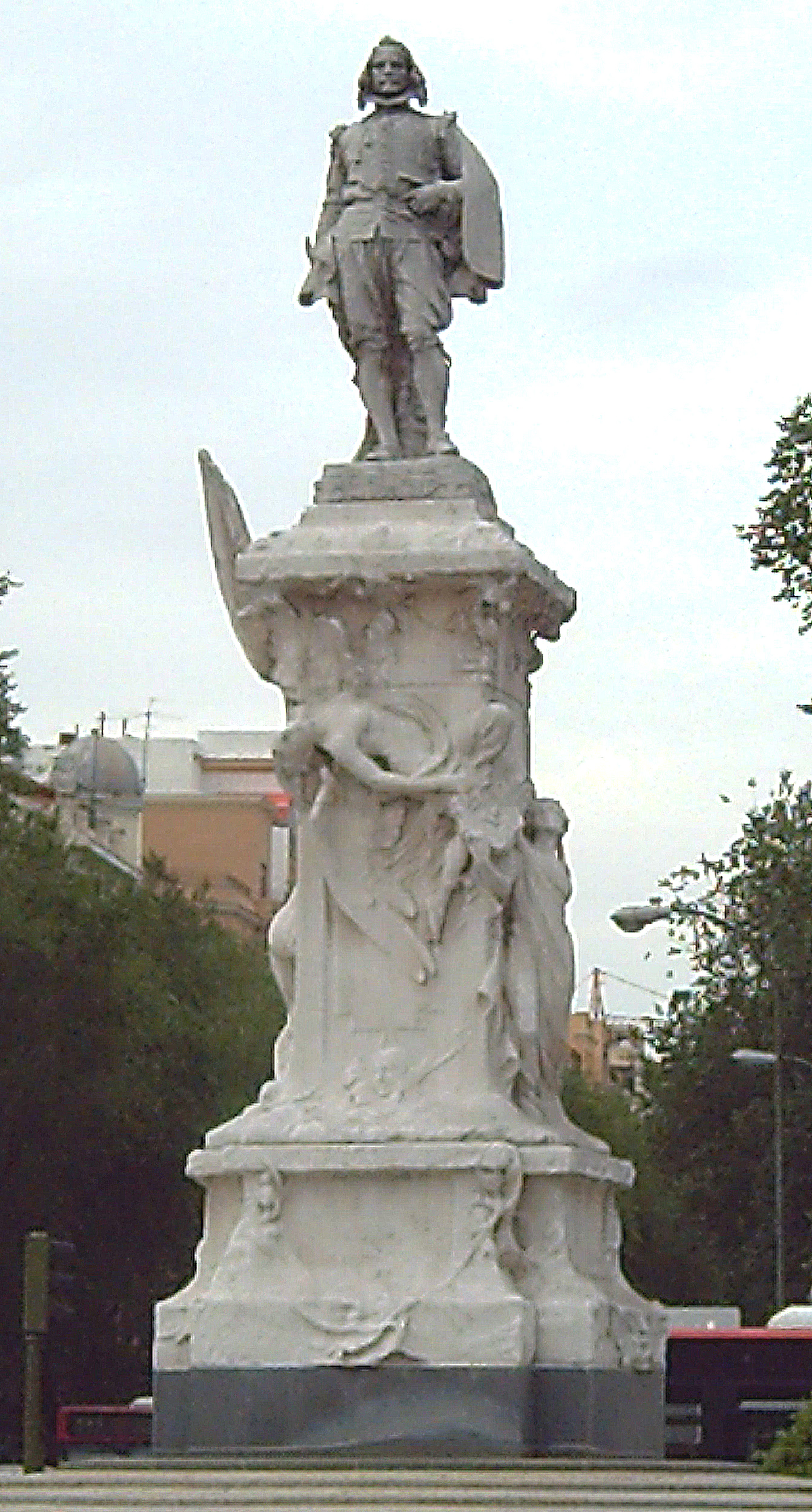 Monument to Quevedo (1580–1645) in Madrid (Spain).